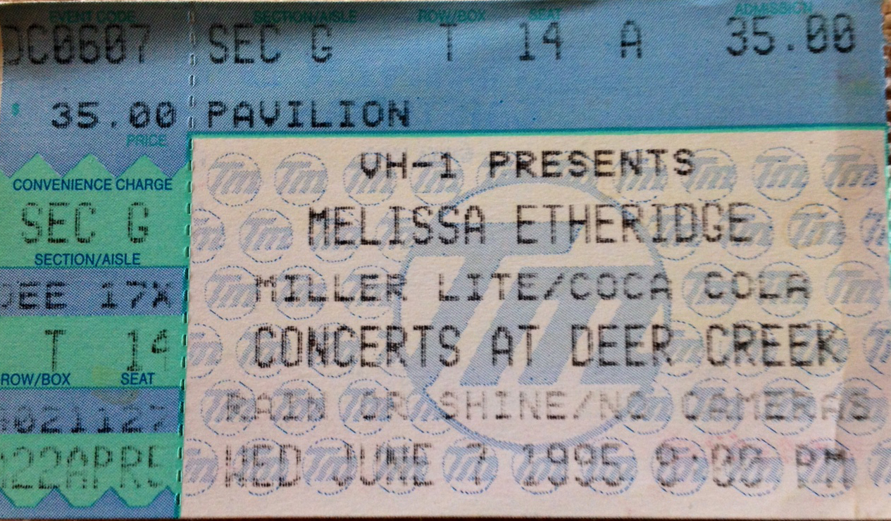 Concert ticket for Melissa Etheridge presented by VH-1. Deer Creek Theater Noblesville, Indiana June 7, 1995